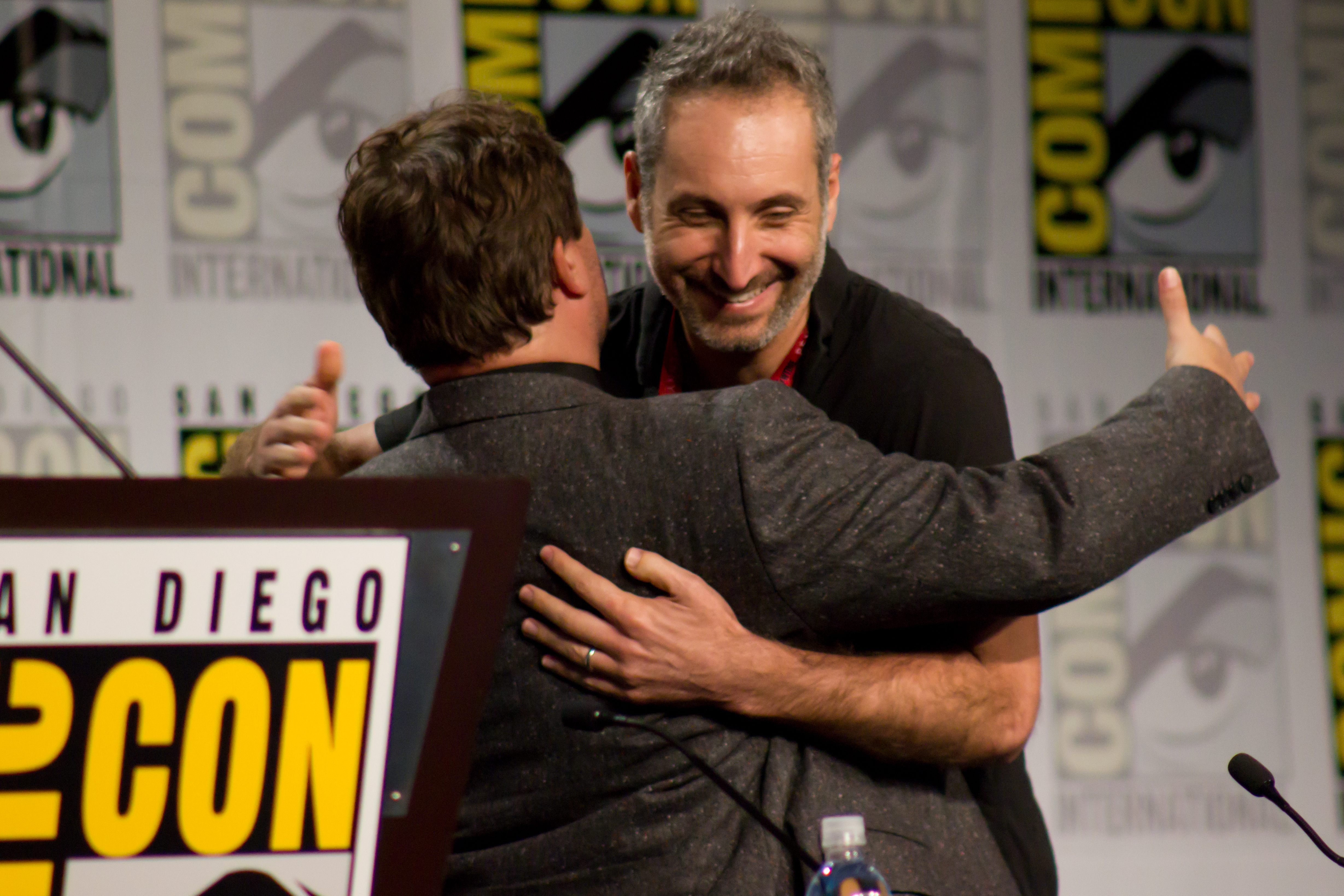 Jack Black and Rob Letterman at the Goosebumps panel at the 2014 Comic-Con International